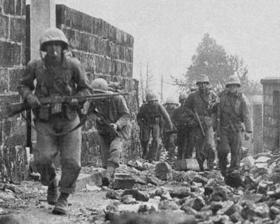 A patrol of the 6th MarDiv searches the ruins of Naha, Okinawa looking for Japanese snipers. Spring 1945.